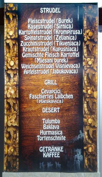 Burek Аҧсшәа: Burek